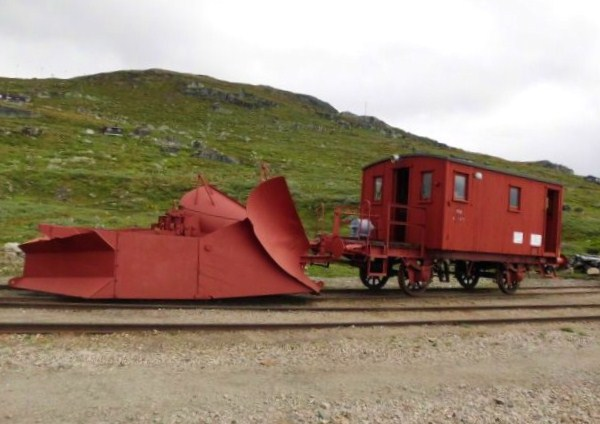 In front of Rallarmuseum, Finse, Norway